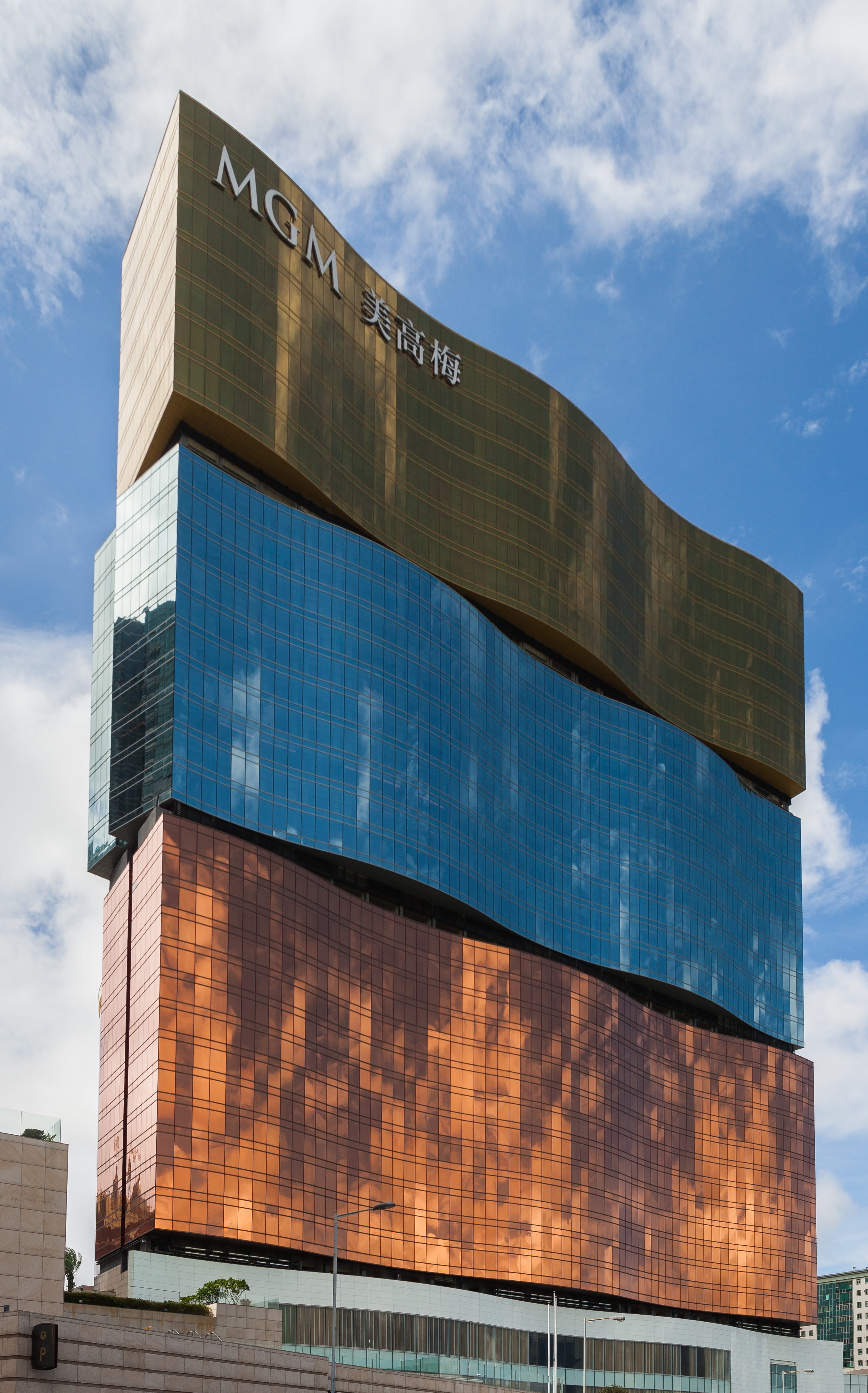 MGM Grand, Macau